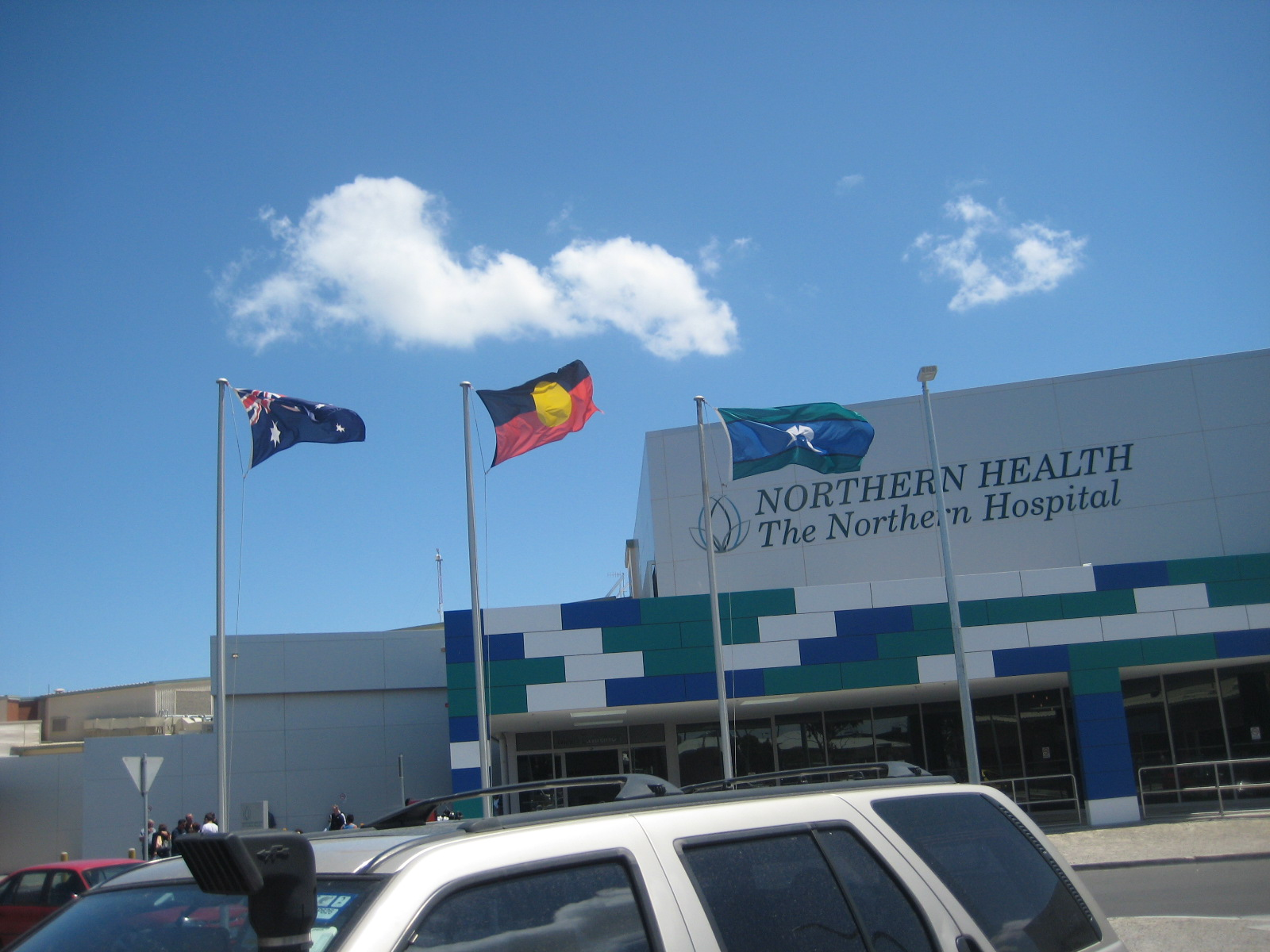 The Aboriginal and Torres Strait Islander flags out the front of the Northern Hospital in Epping, Victoria, Australia